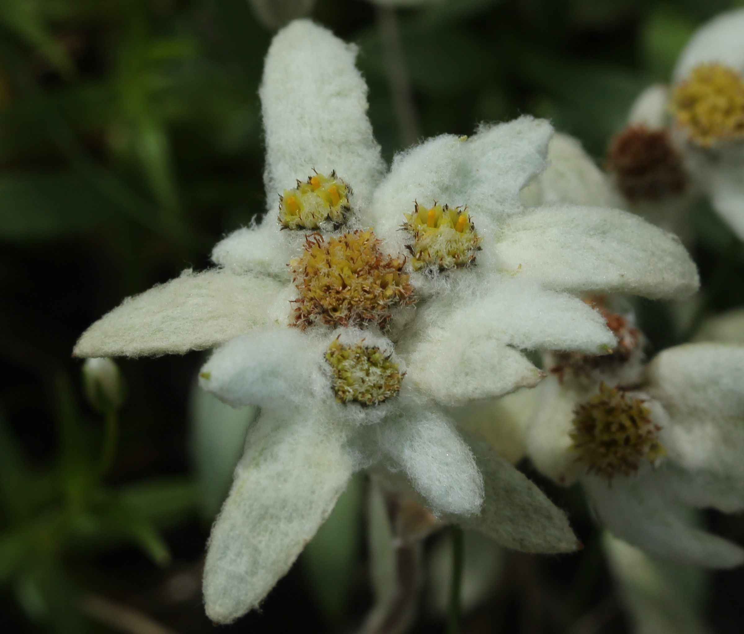 Leontopodium shinanense, in Mount Kisokoma, Nagano pref., Japan.